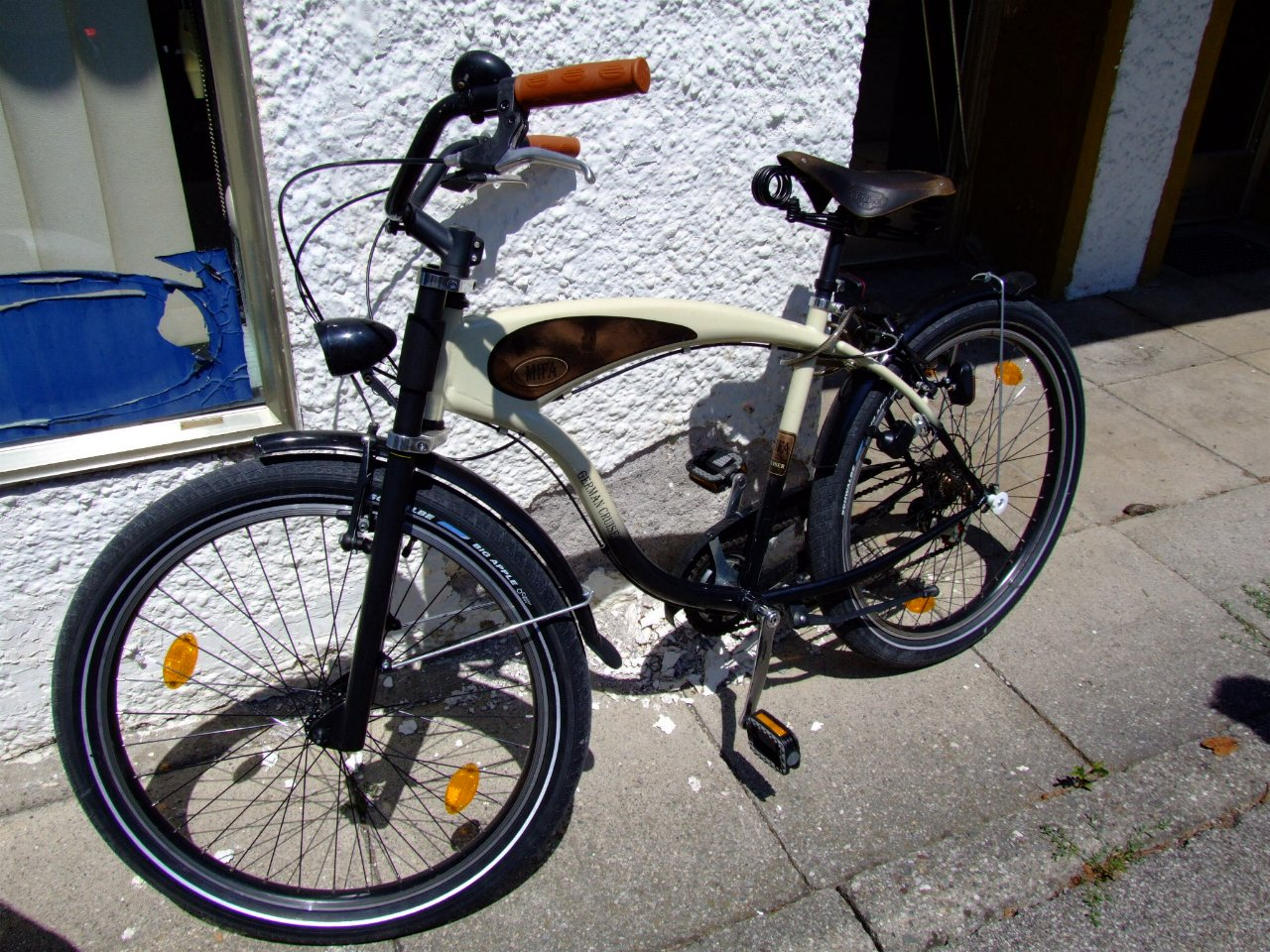 Summary Quelle: selbst fotografiert, 07/2006 Fotograf: Späth Chr.